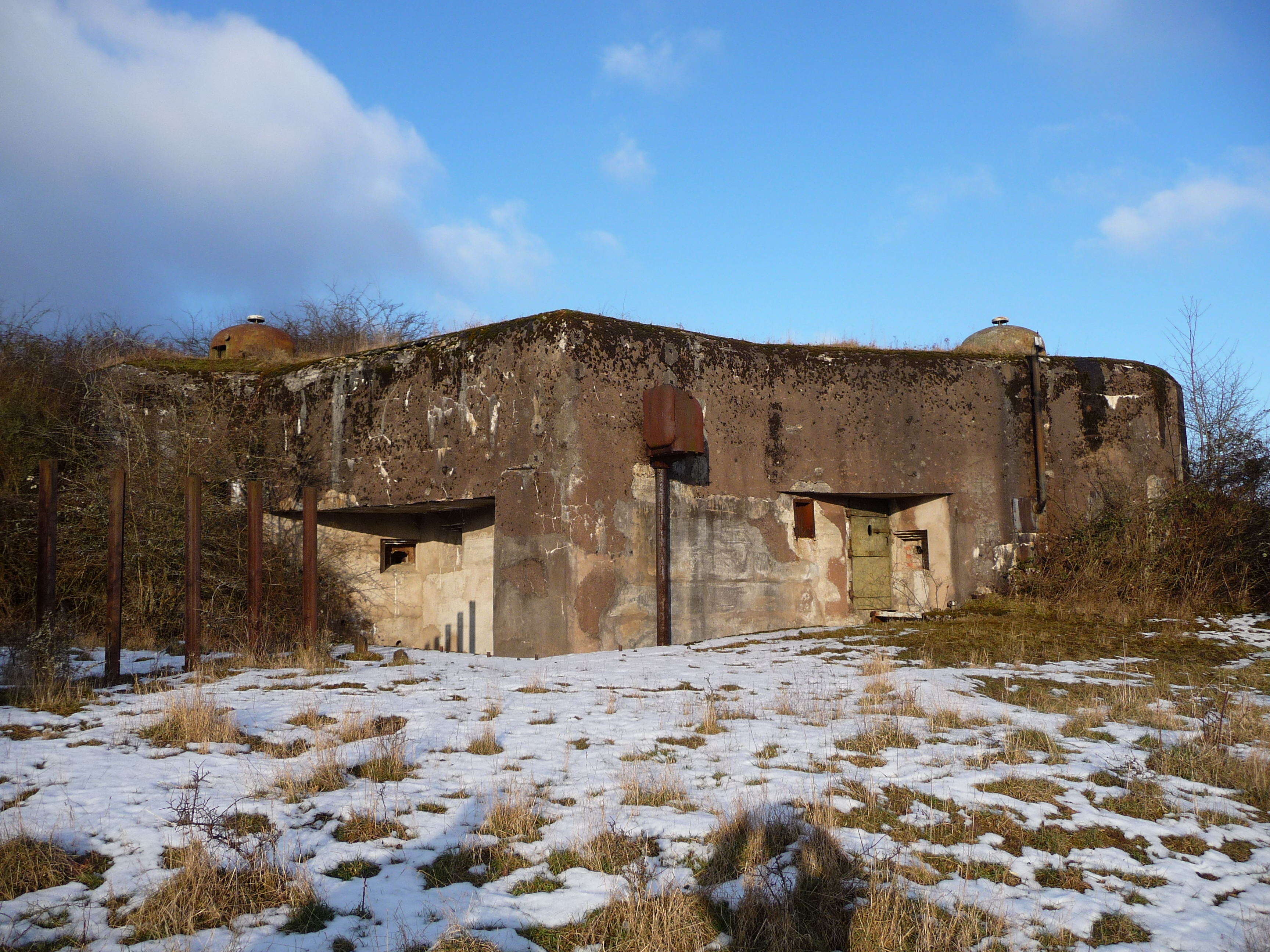 The block 2 at the work of Lembach (Ligne Maginot), Alsace, France